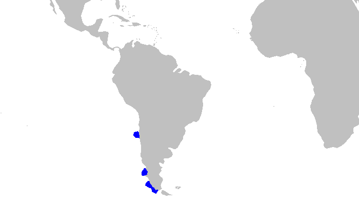 Distribution map for Bythaelurus canescens Syn. Halaelurus canescens